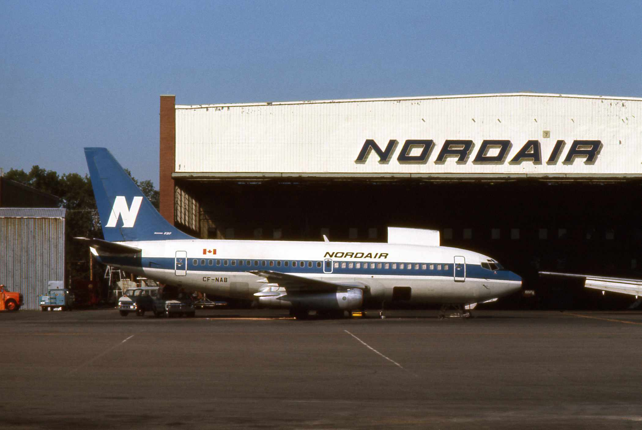 Nordair Boeing 737-242C, CF-NAB, c/n 19847/84 delivered 1968-11-28. First flight as N6241. Nordair on 1987-01-02 was merged to CP Air. Here is taken at Airlines base in Montreal on august 1975.